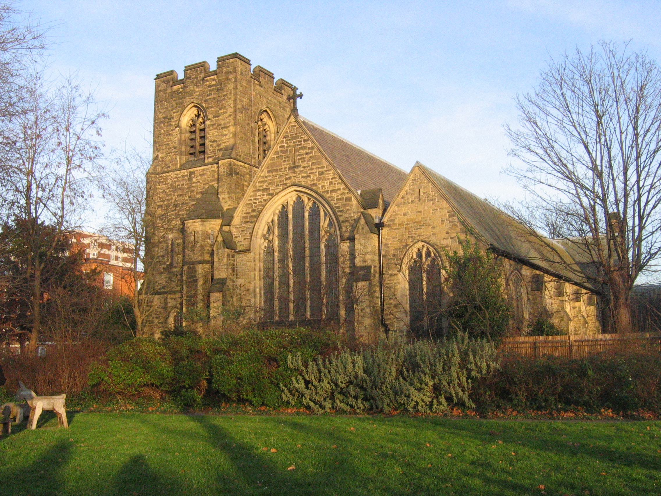 West front of St John the Divine parish church, High Path, Merton, London SW19, seen from Nelson Gardens